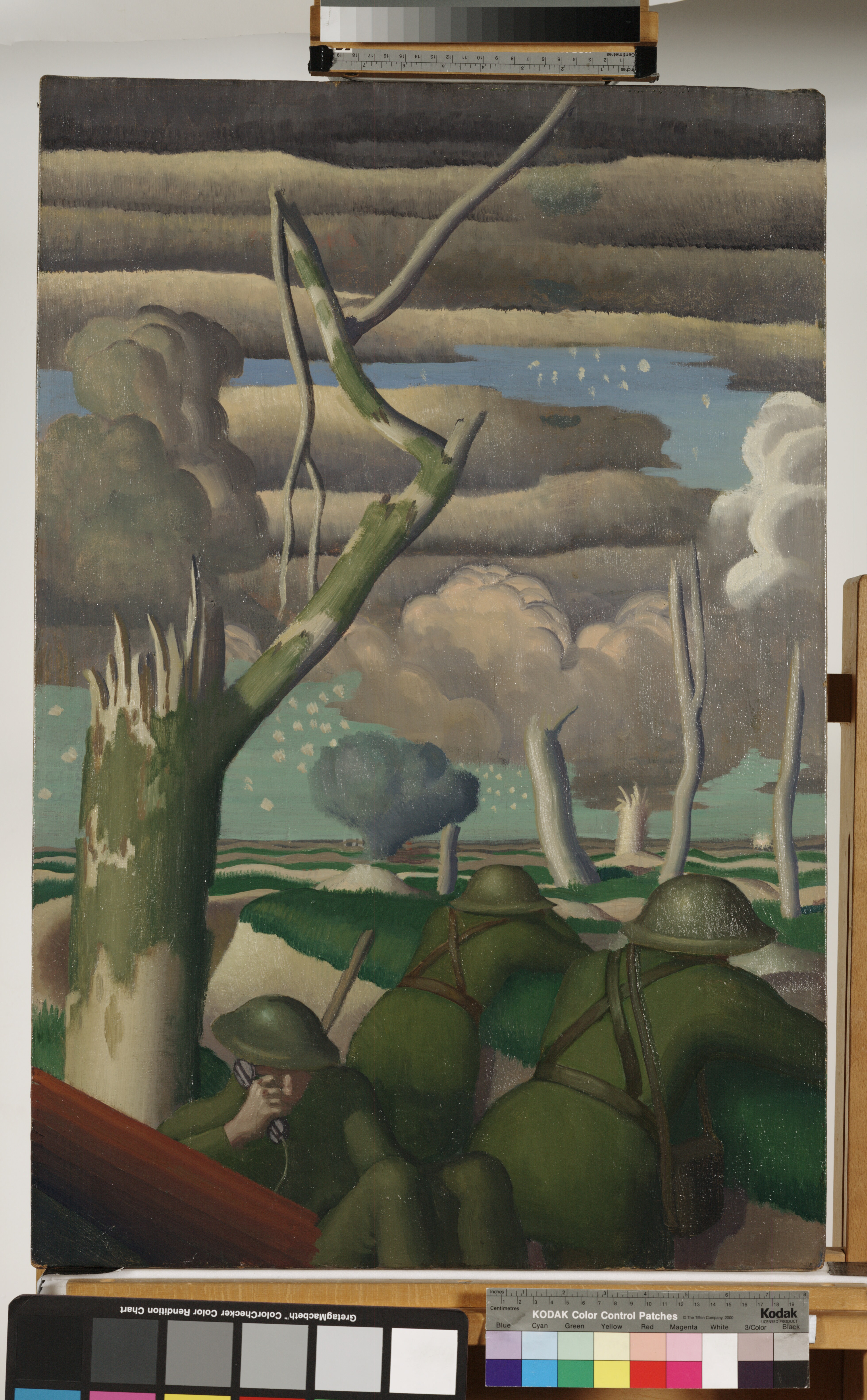 Gill gave this description of the work: 'Gunner officers correcting their battery fire by field telephone from a disused trench in No Man's Land image: Three Royal Artillery observation officers survey battery fire on a battlefield from a trench in the foreground. One officer sits in the trench using a field telephone whilst the two other officers observe the artillery fire by looking out over the lip of the trench. There is a bomb-damaged tree beside them to the left and the battlefield is undulating as a result of previous artillery fire, with further trees to the right. Puffs of smoke indicate where the artillery shells are falling. All is set against a cloudy sky apart from two horizontal bands of bright blue sky.